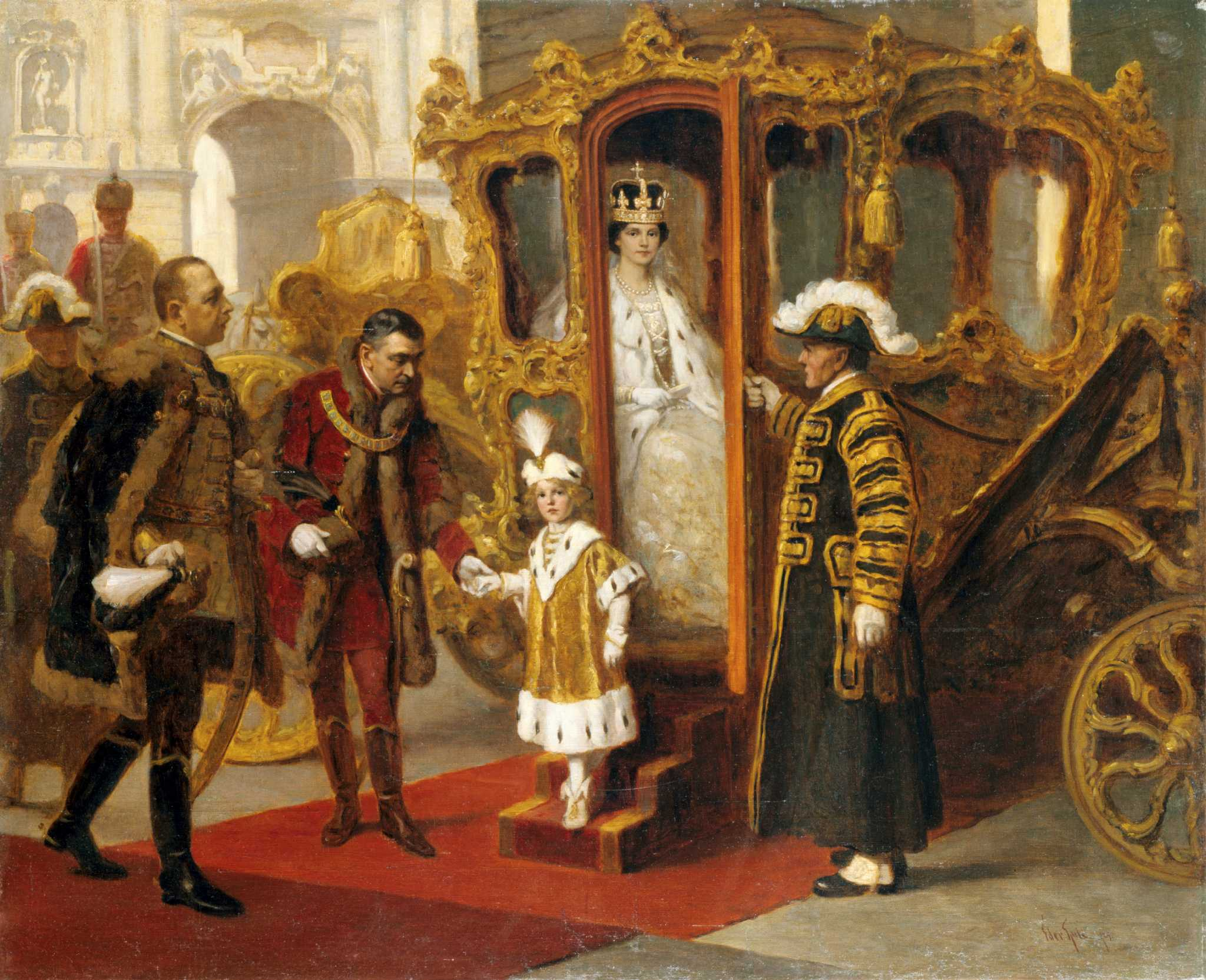 Queen Zita of Hungary and Crown Prince Otto of Hungary (= Otto von Habsburg) arrive at the royal palace in Budapest on coronation day 1916 december 30(th)